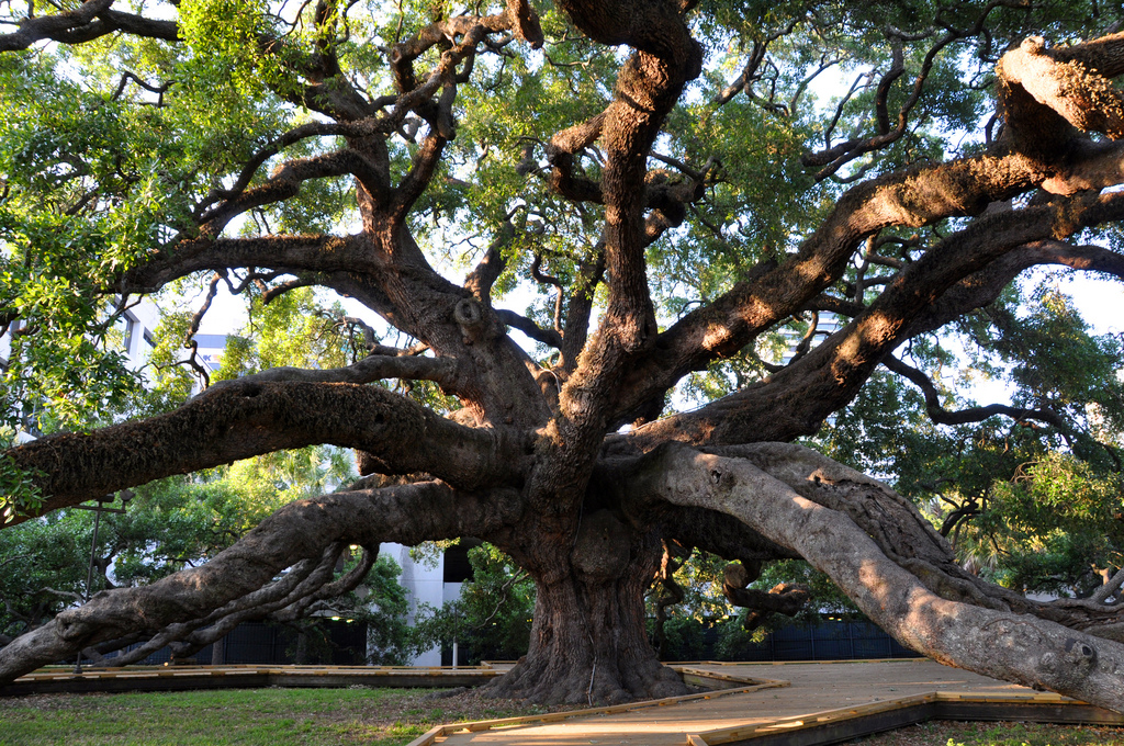 Southbank, Jacksonville, FL 32207, USA